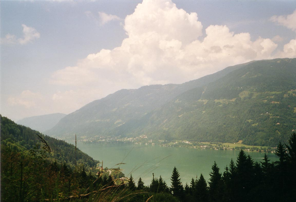 Lake Ossiach near Villach / Carinthia / Austria / Europe